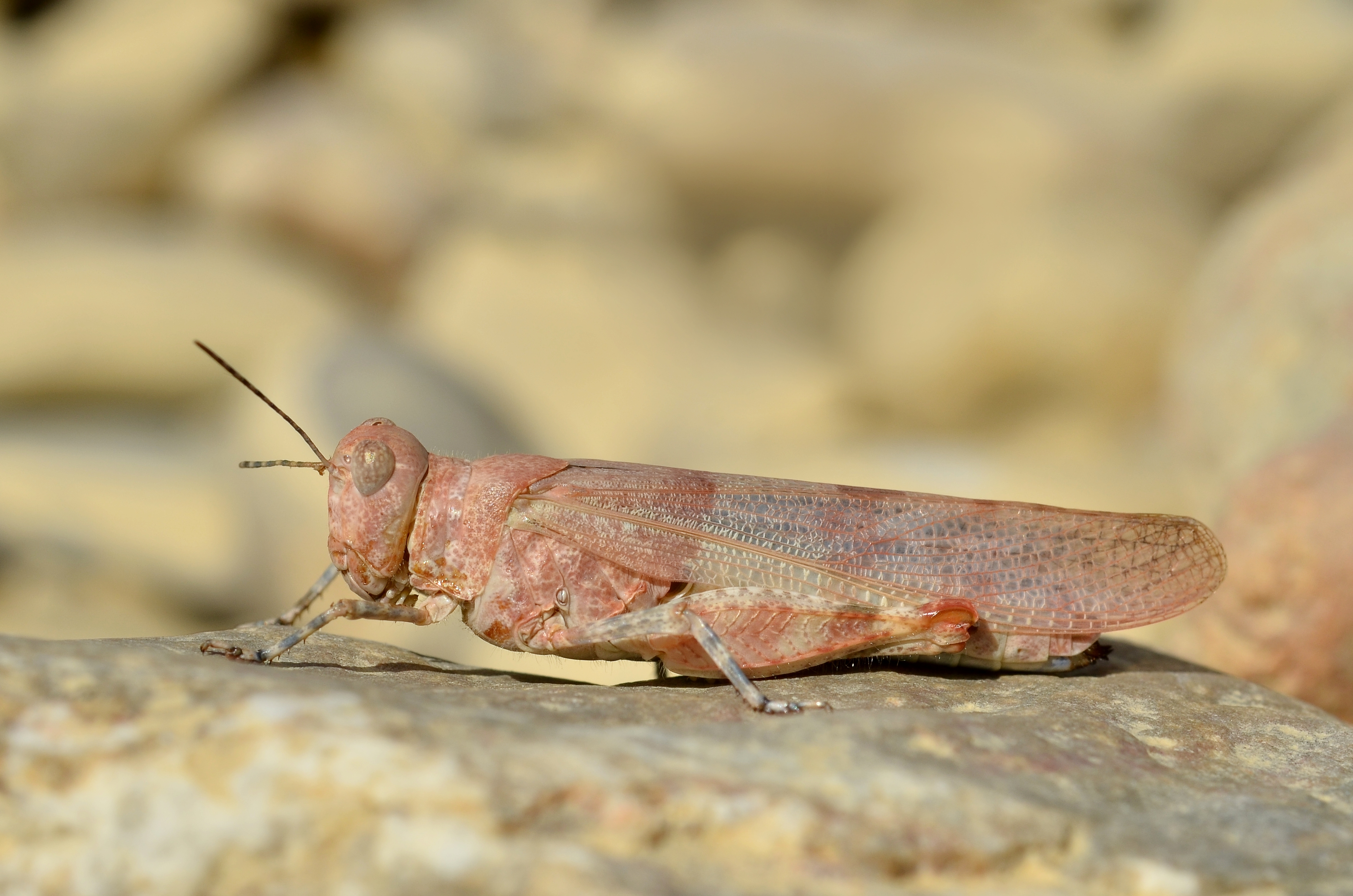 Sphingonotus caerulans female